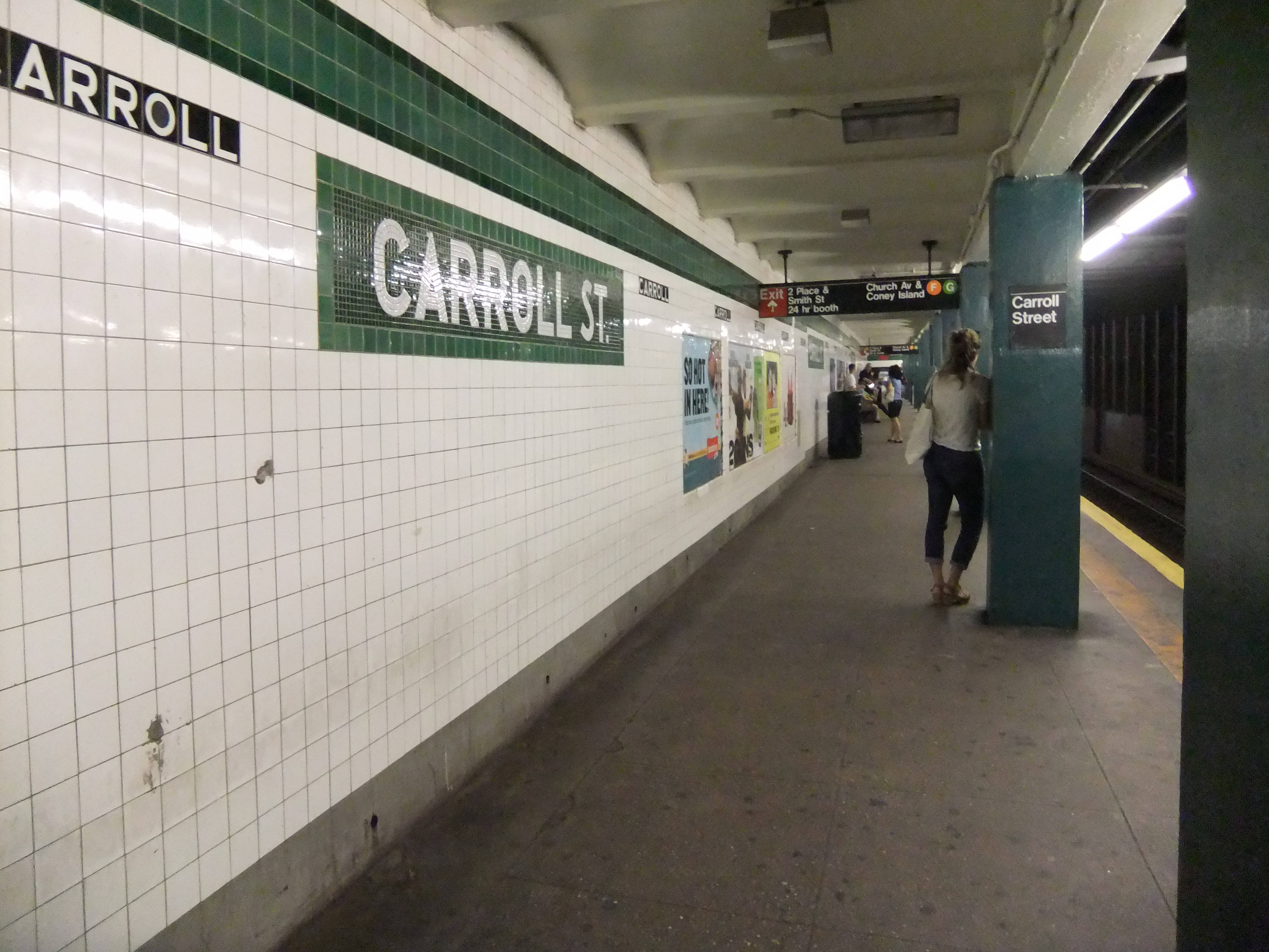 Uptown platform at Carroll Street (IND).